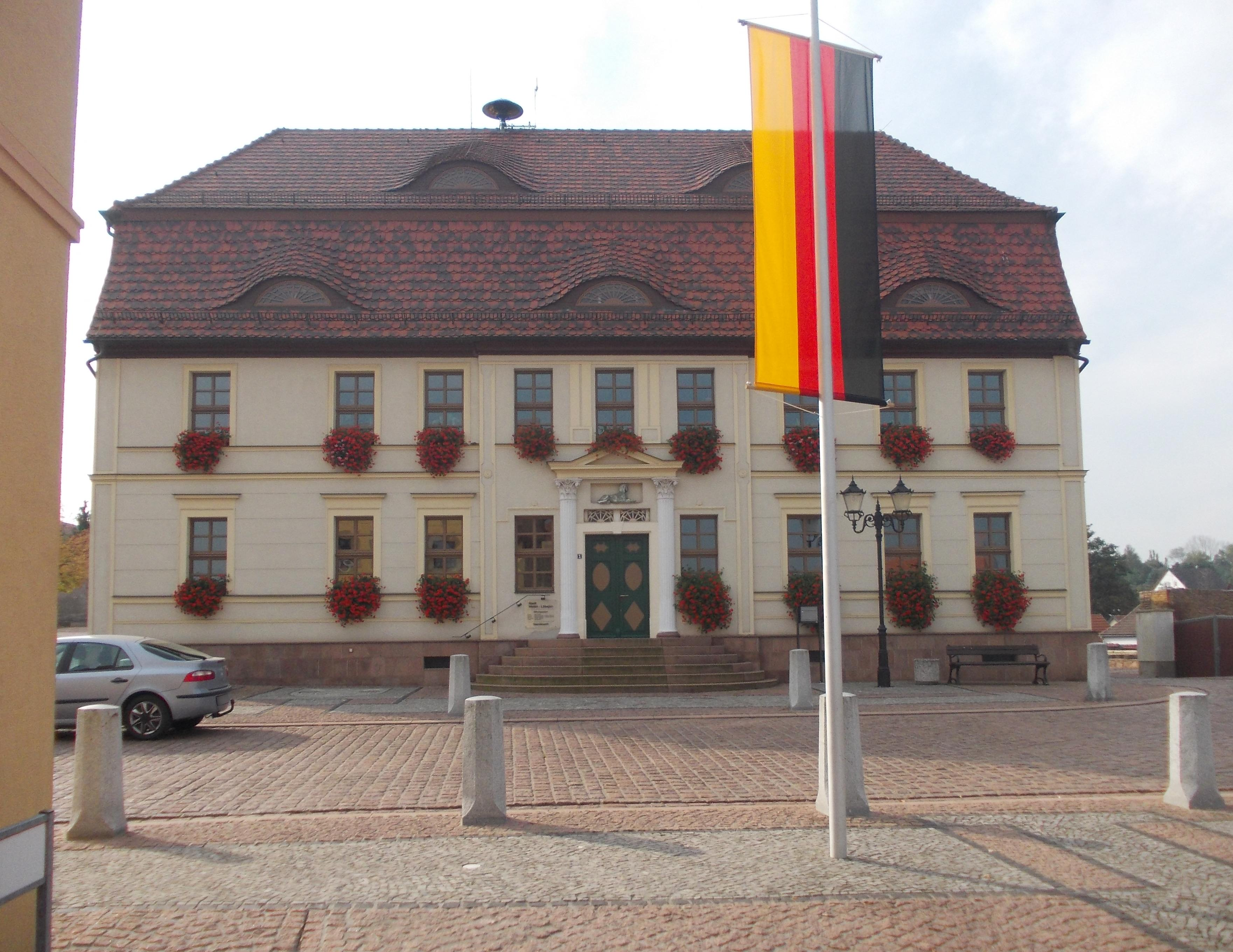 Town hall in Löbejün (Wettin-Löbejün, district: Saalekreis, Saxony-Anhalt)